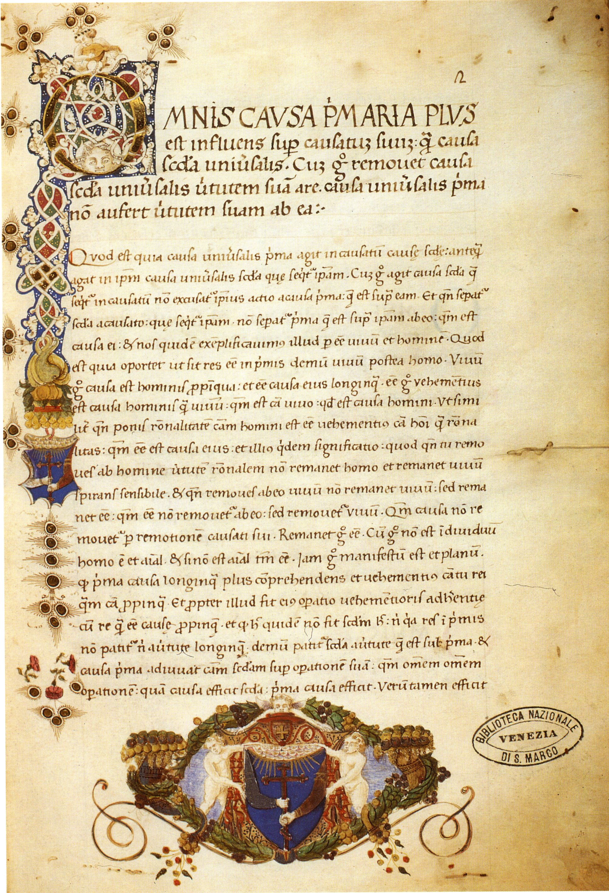 The beginning of the Liber de causis in a manuscript from the library of Cardinal Bessarion. Manuscript Venice, Biblioteca Nazionale Marciana, Lat. 288, fol. 2r.